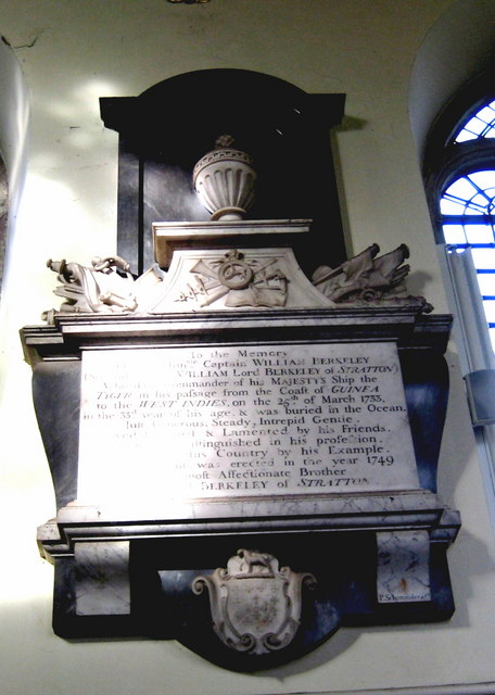 St Mary's parish church, Bruton, Somerset: wall-mounted monument to Captain William Berkeley. He matriculated at Christchurch Oxford aged 16. He later commanded the fourth-rate frigate HMS Tyger. He died at sea on 25th March 1733, aged 33, when his ship was in passage from the coast of Guinea to the West Indies.